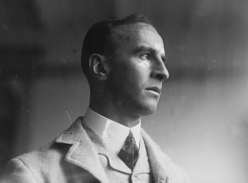 James C. Parke (1881-1947), tennis player from the United Kingdom